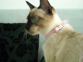 Female thai cat, chocolate point